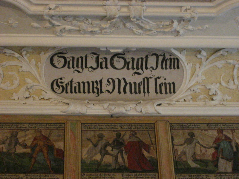 Detail of the Fuessen Dance of Death